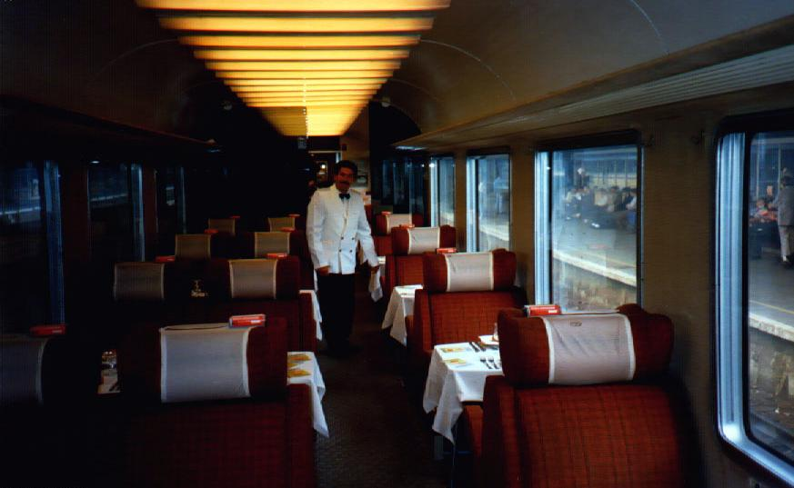 Interior of SNCF A8tu Inox-PBA coach in EuroCity Étoile du Nord (Amsterdam ‒ Paris). Full meals are served at the seat in several coaches.